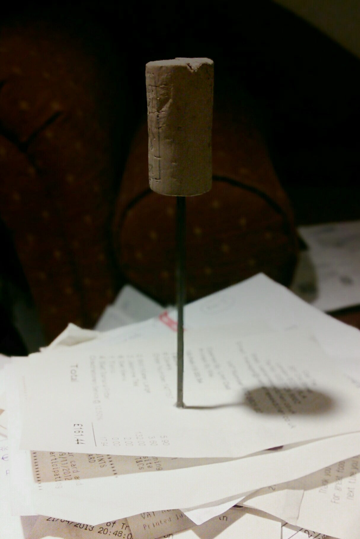 Bill hook with a cork on the top.